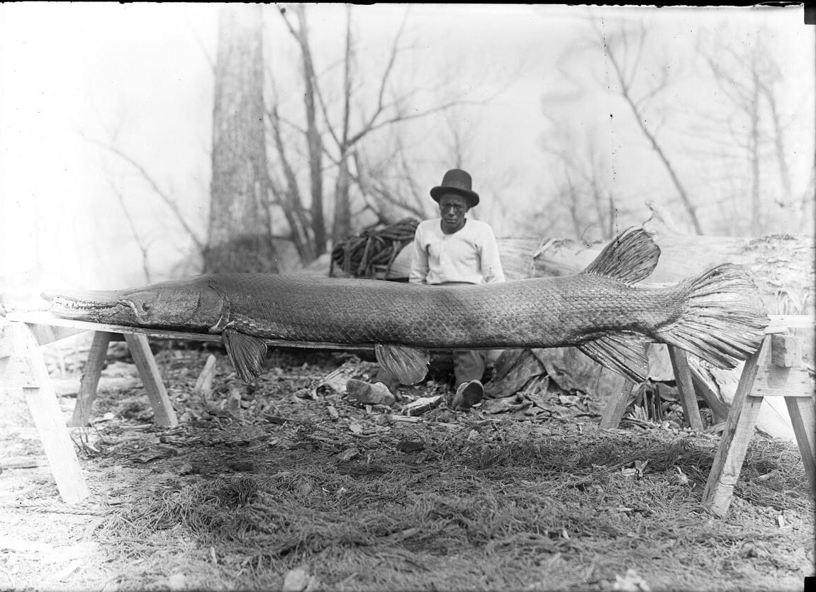 Alligator Gar. Moon Lake, Mississippi. March 1910, Neg. No. 117075, Photographer D. Franklin, Courtesy Dept. of Library Services, American Museum of Natural History.